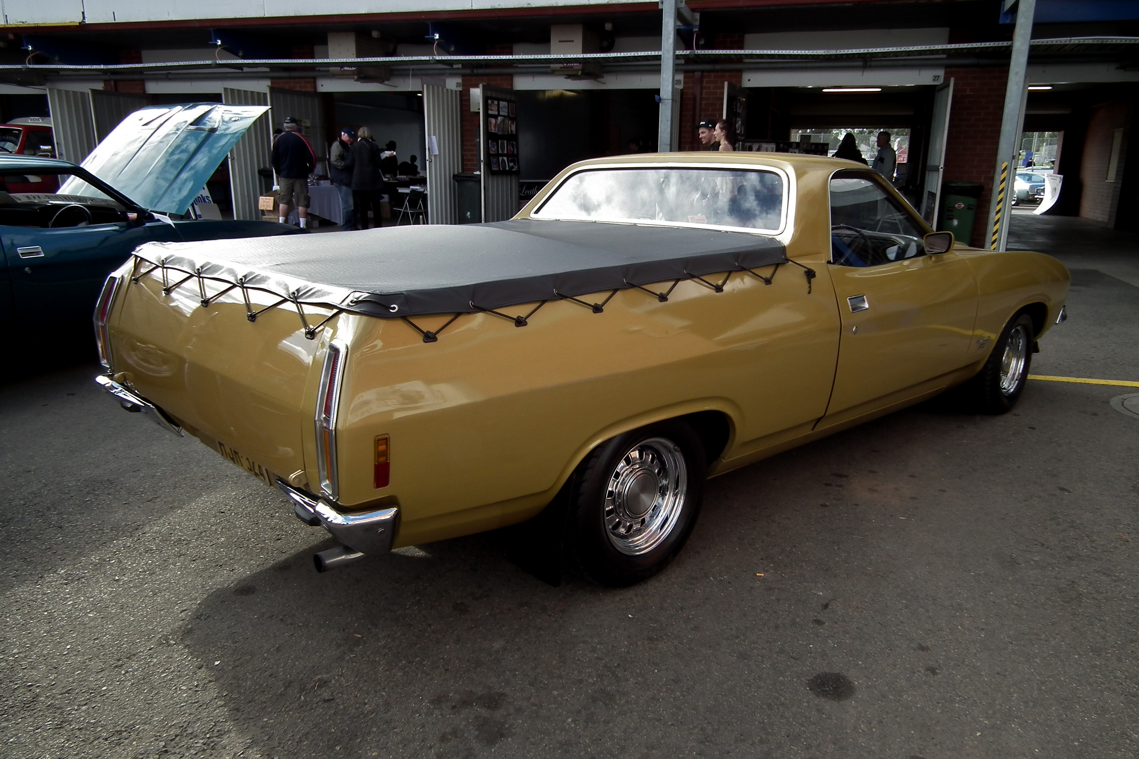 1975 Ford Falcon 500 utility. Taken at the 2011 New South Wales All Ford Day, held at Eastern Creek Raceway.